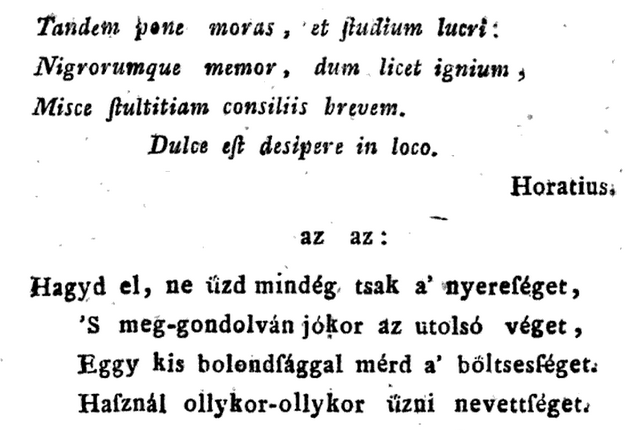 Édes Gergely's translation (Horace)